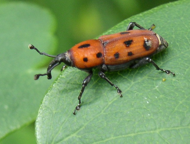 Ironweed curculio, Rhodobaenus tredecimpunctatus. Pennypack Restoration Trust, Montgomery County, Pennsylvania, USA.